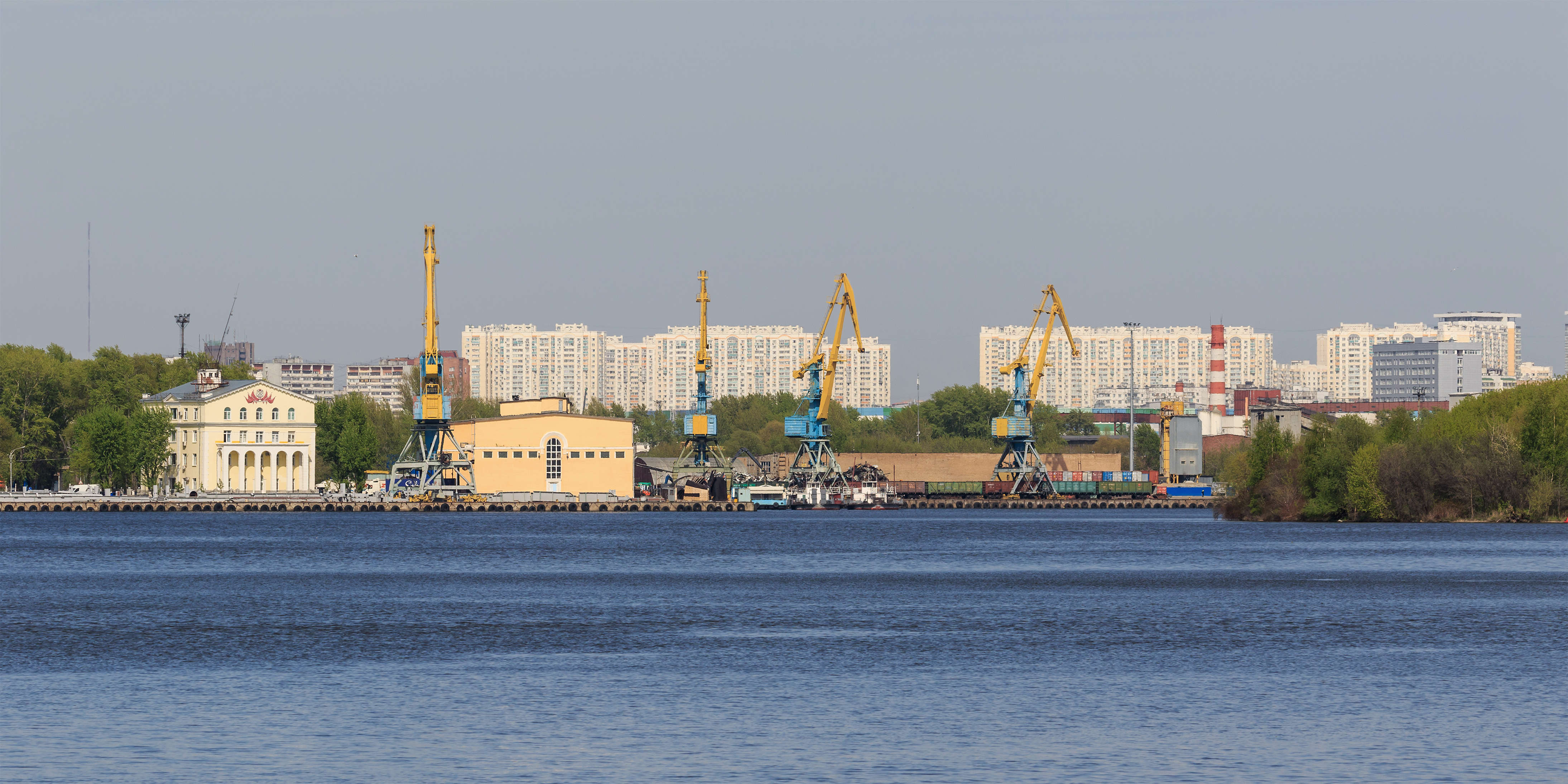 Remote view of South river port in Moscow (Russia).